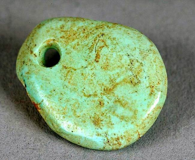 Ancestral Puebloan (Anasazi) freeform turquoise pendant, circa 1000-1040 CE. L 1.3, W 1.0, T 0.2 cm. Site number 29SJ 626. Chaco Culture National Historical Park, CHCU 30634.